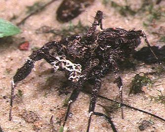 female Portia fimbriata from Okinawa.